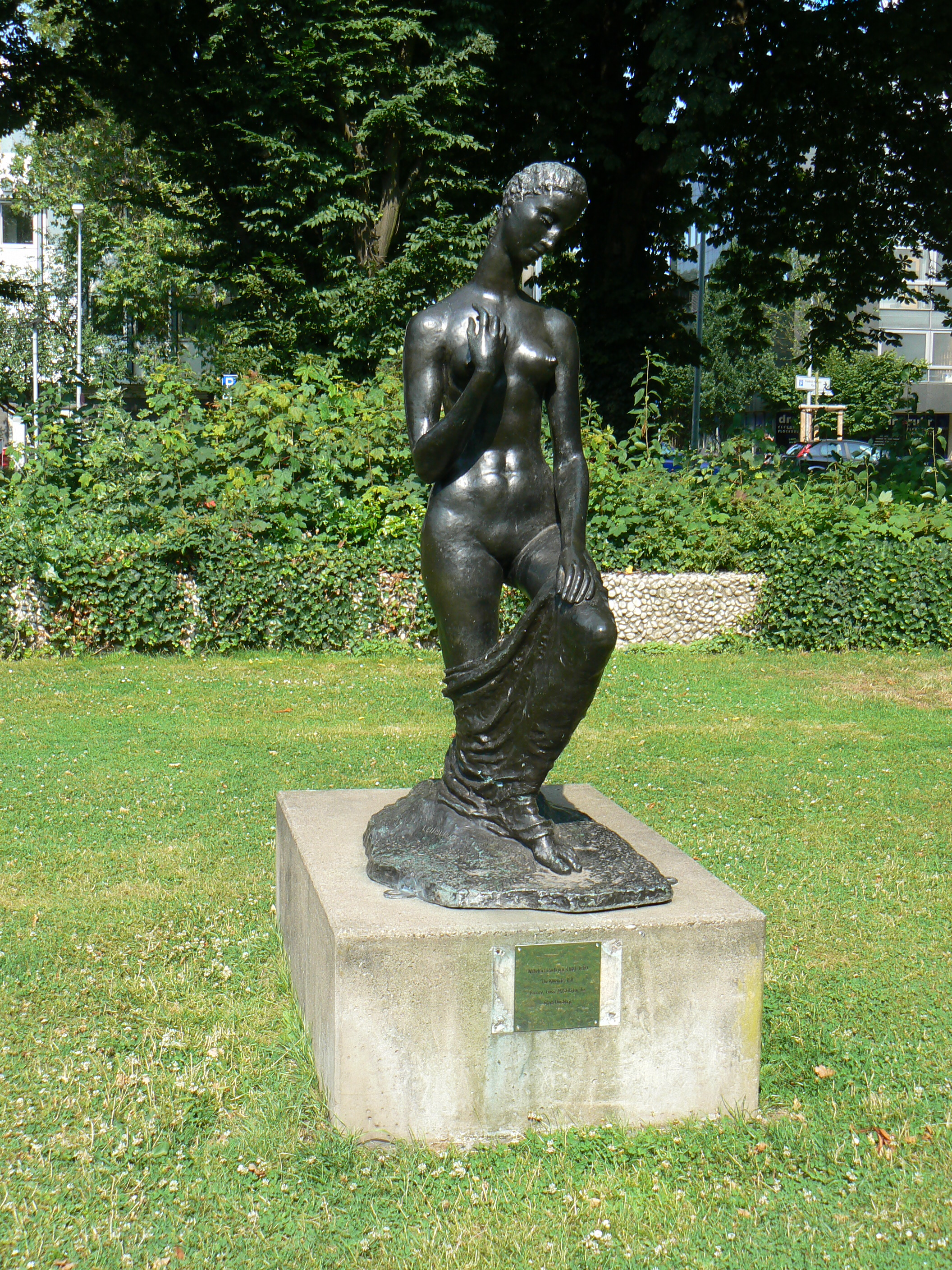 sculpture Kniende (1911/1926) by Wilhelm Lehmbruck in Duisburg/Germany